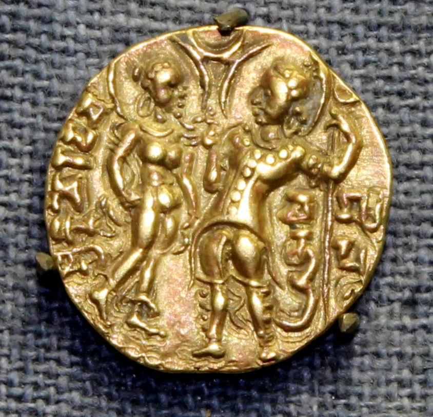 Gupta Coins showing the Marriage of Chandragupta